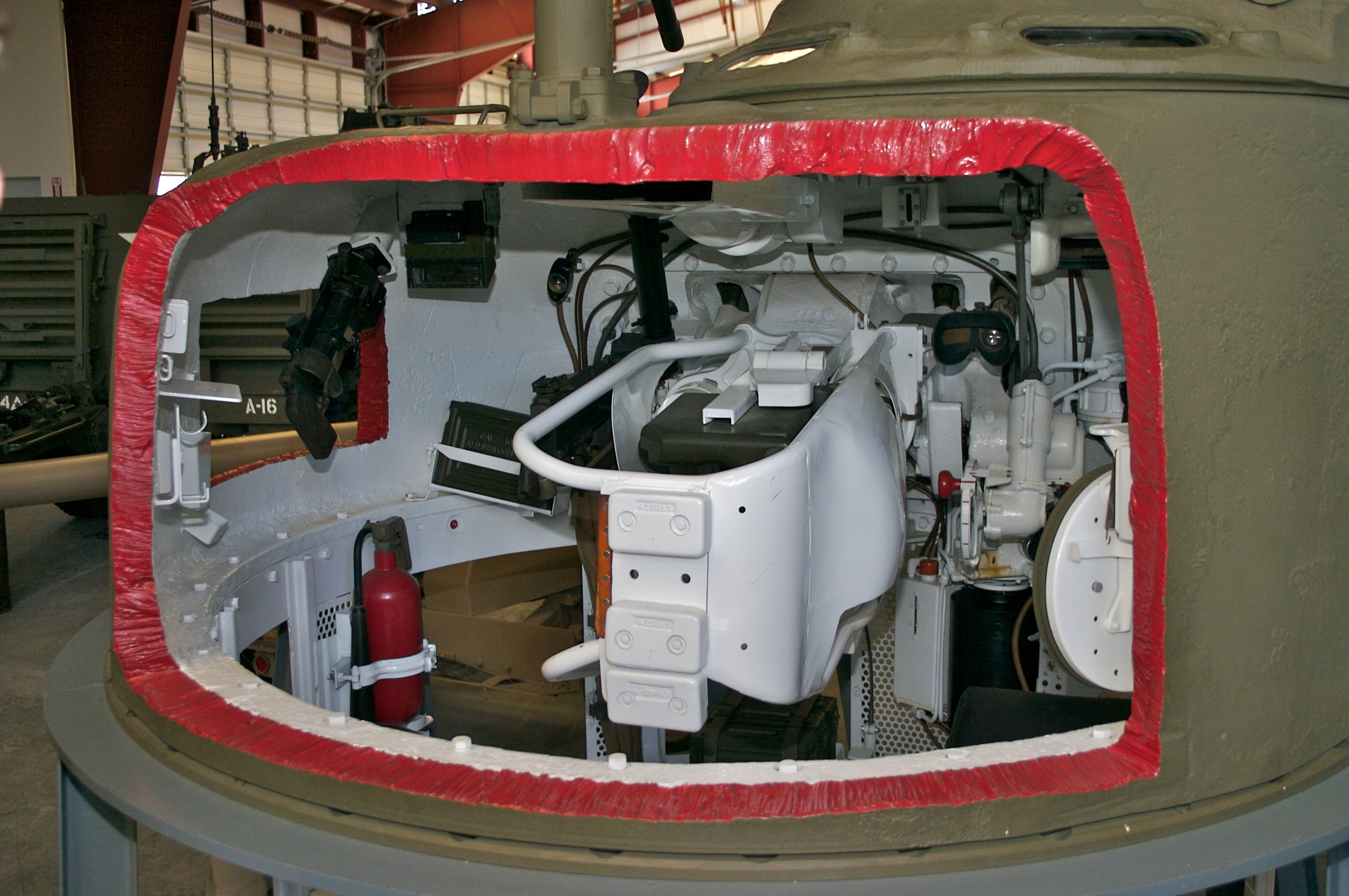 A cut way view of a tank turret.